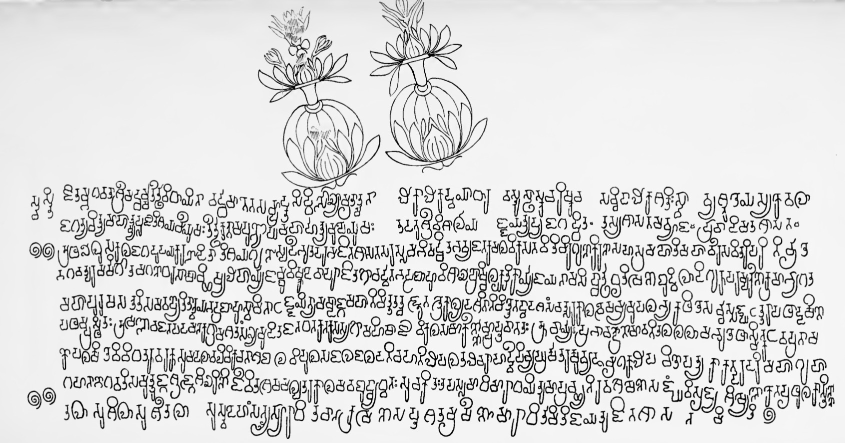 The Shravana Belgola is an important Digambara Jain pilgrimage site in Karnataka, India. The site has three major clusters of historical monuments and inscriptions: Vindhyagiri, Chandragiri and Basadis (Basti, settlement). The above inscription is in Sanskrit, one of three pre-1000CE inscriptions found at Shravanabelgola in that language (others are in Kannada language). The inscription mentions Bhadrabahu and Prabhacandra. B Lewis Rice (1889, Archaeological Survey of Mysore) proposed that Prabhacandra is same as Chandragupta Maurya, a proposal that is found in official tourist literature and Digambara documents in the modern times. Scholars such as J F Fleet (May 1892, Indian Antiquary, pp. 156–162) and numerous others state that this is wrong, as there were several Bhadrabahu as well as Prabhacandra in Jain history, and this inscription related to a later era Jain monks, centuries after Chadragupta Maurya had died. Svetambara Jains also disagree with Digambara version of Bhadrabahu-Chandragupta story, stating the first Bhadrabahu never migrated south and died in Nepalese Himalayas. This is a 7th-century inscription, whose 2D-art photo was printed in 1889 by B Lewis Rice, and the above is a photo of that 1889 version. Wikimedia's 2D-Art licensing guidelines therefore apply. Any rights I have as a photographer, I herewith donate to wikimedia with CC4.0 license.